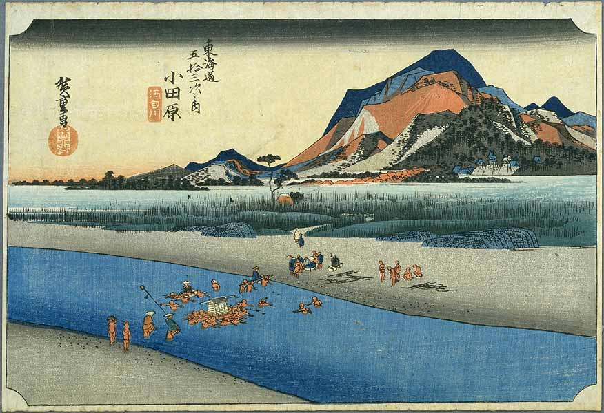 Odawara on the Tokaido, ukiyo-e prints by Hiroshige